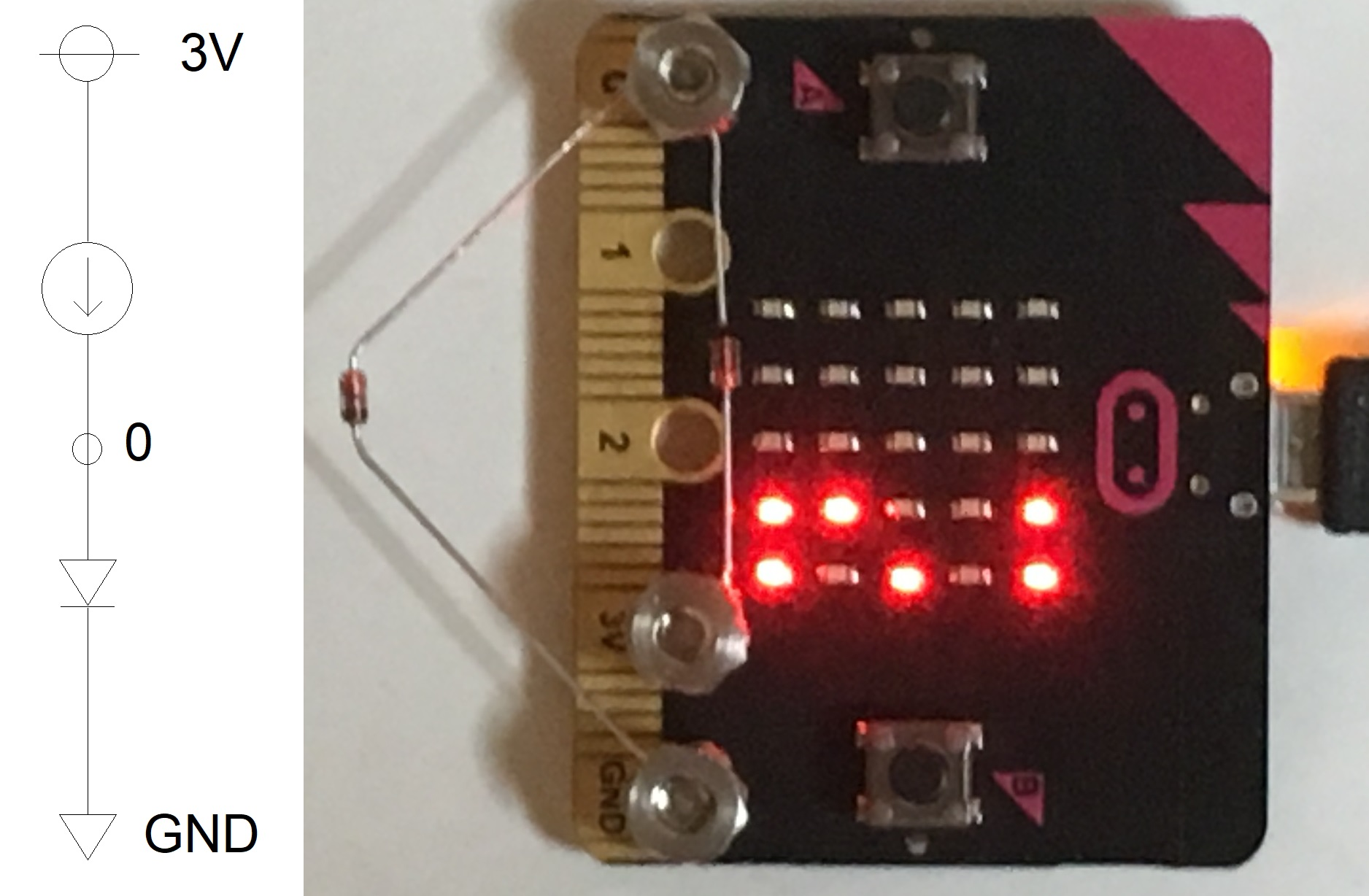 Diode type thermometer